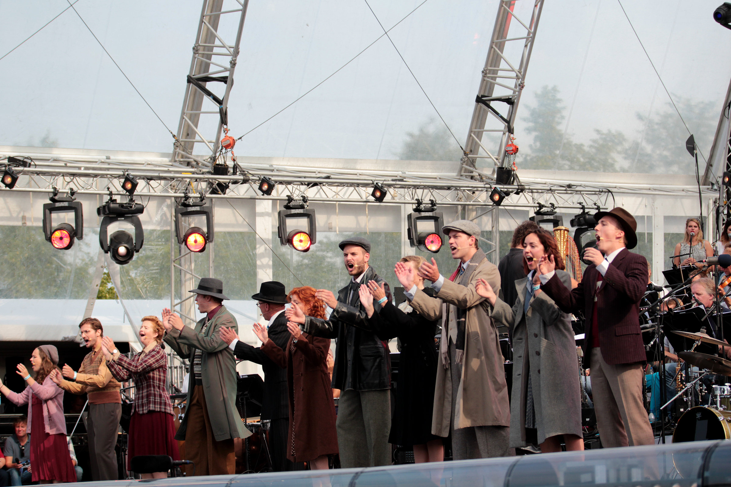 The cast of Het Meisje met het Rode Haar during the rehearsals for the musical singalong at the Uitmarkt 2015 in Amsterdam.